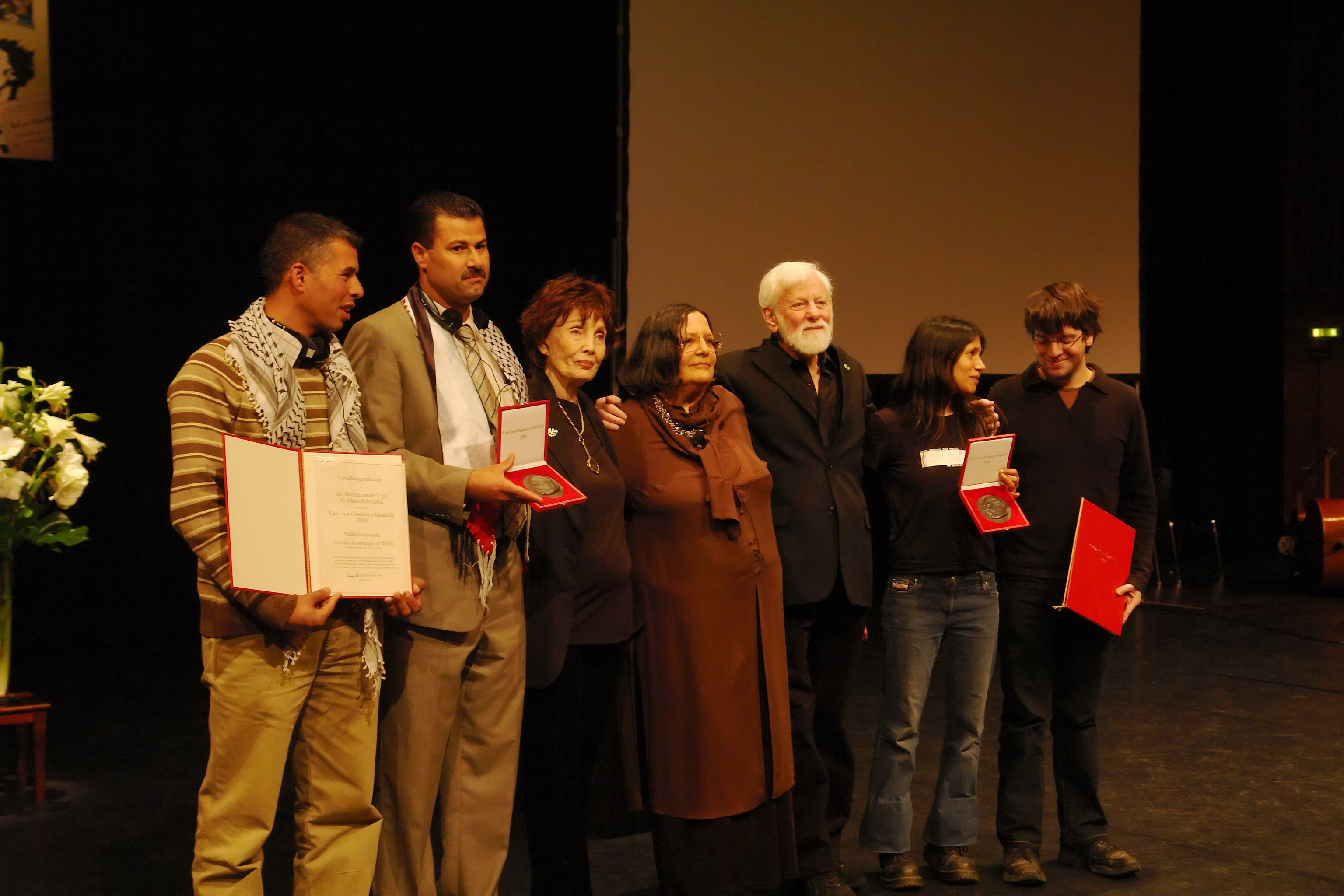 Ceremony for the conferment of the Carl von Ossietzky Medall 2008. Left to right: Mohammed Khatib & Abdallah Aburama (Popular committee of the Bil'in village), Rachel Avnery, Fanny-Michaela Reisin (President of the international league for human rights), Uri Avnery, Adi Winter & Yossi Bartal (Anarchists against the wall)